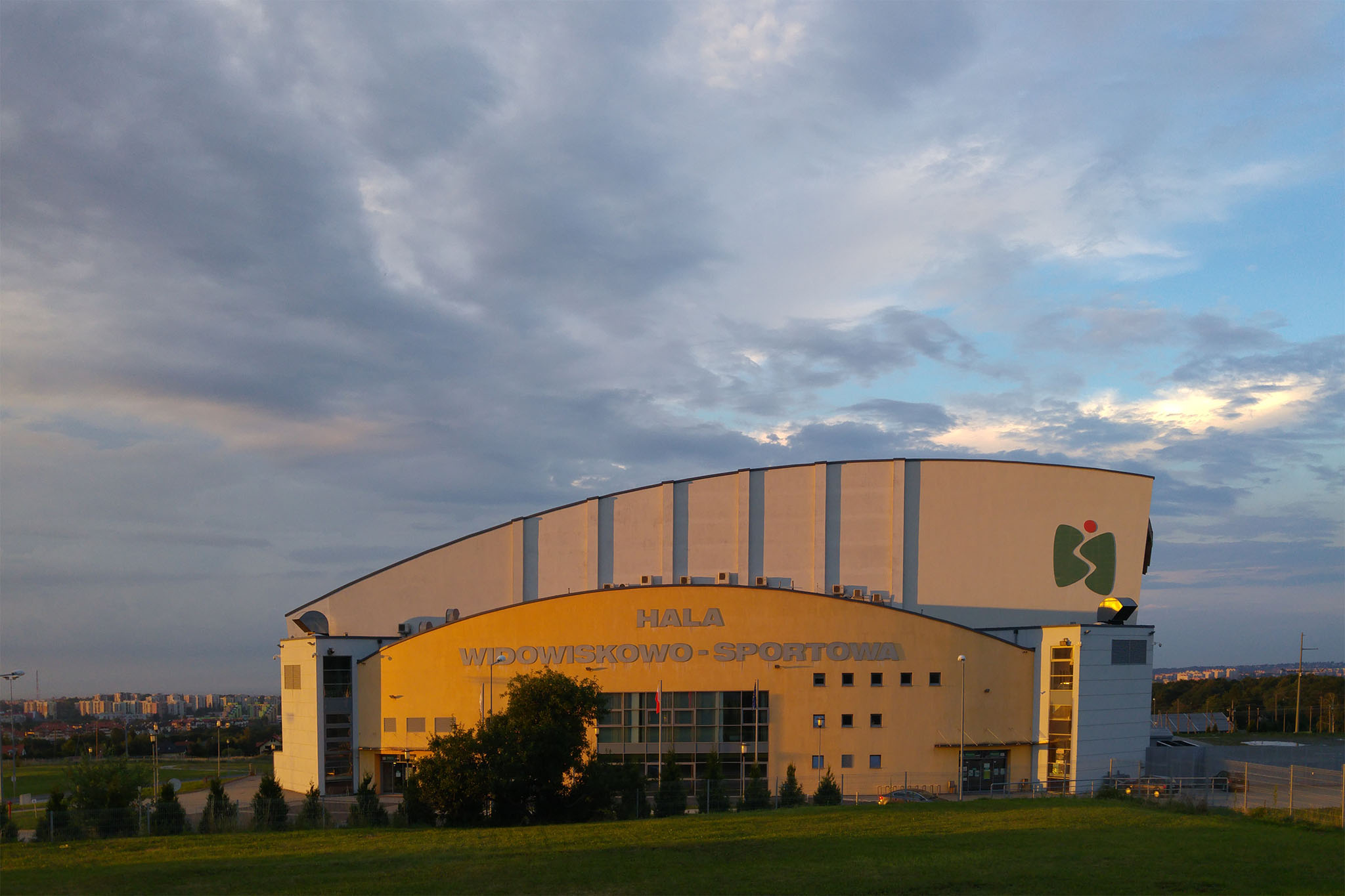 Sport hall in Bielsko-Biala, Poland